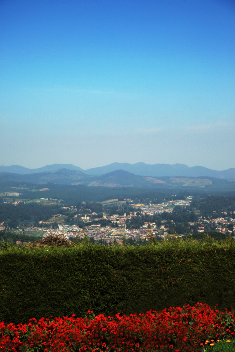 The town of Ooty in south India. Set in midst of Western Ghats.